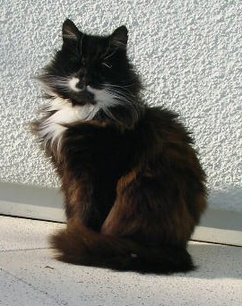 black cat basks in the sun.